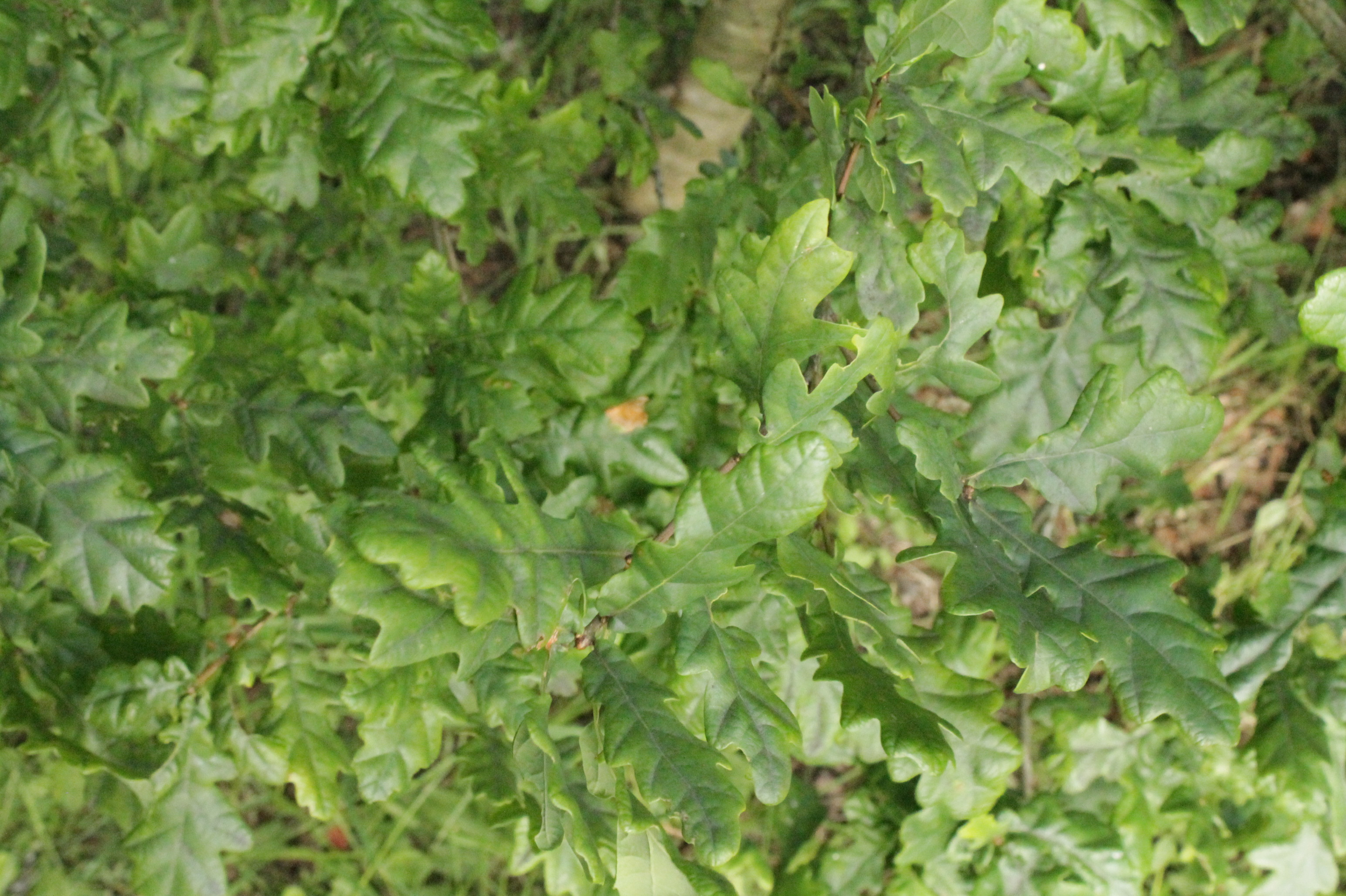 The leaves of a young oak